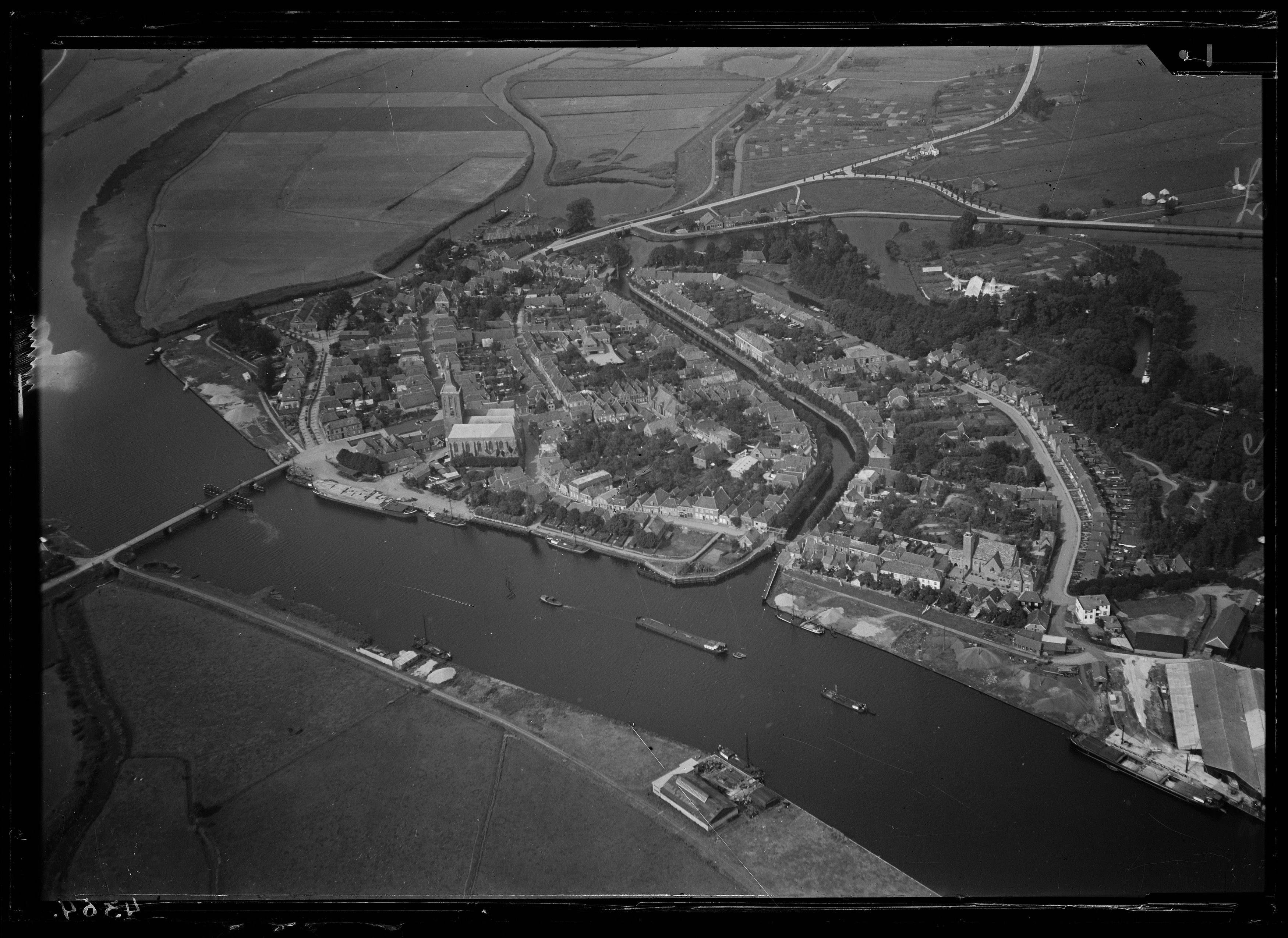 Aerial photograph of Hasselt, The Netherlands